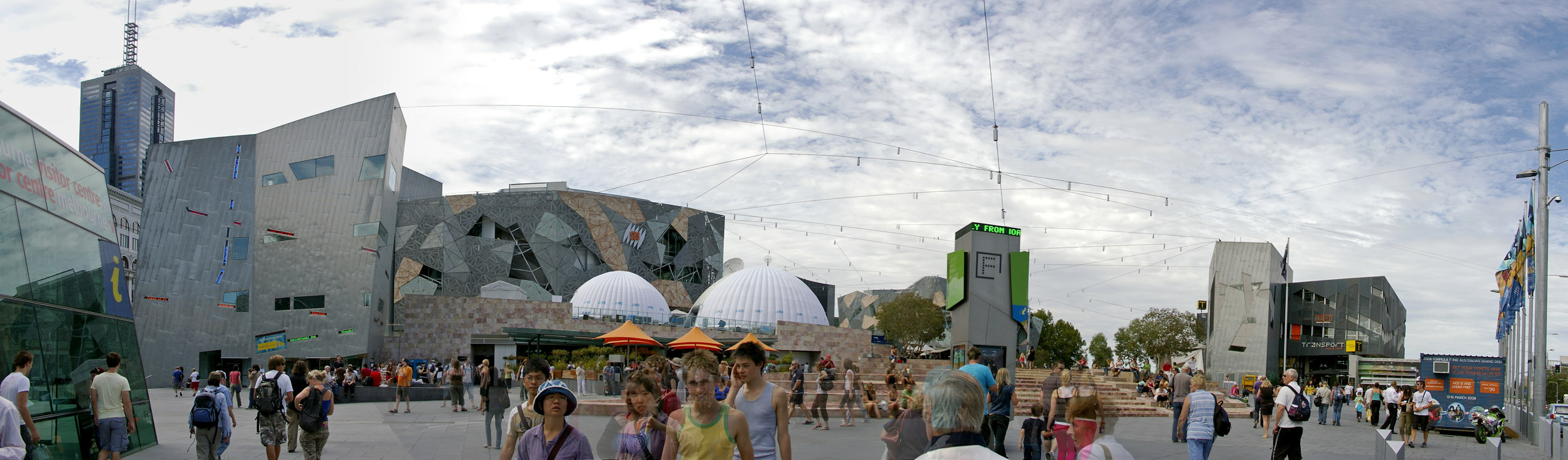 Australian Centre for the Moving Image panorama. Melbourne, Australia